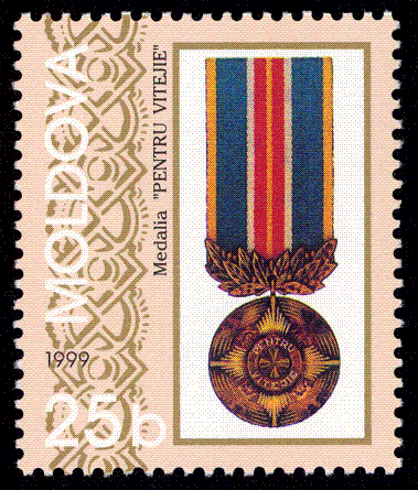 Stamp of Moldova